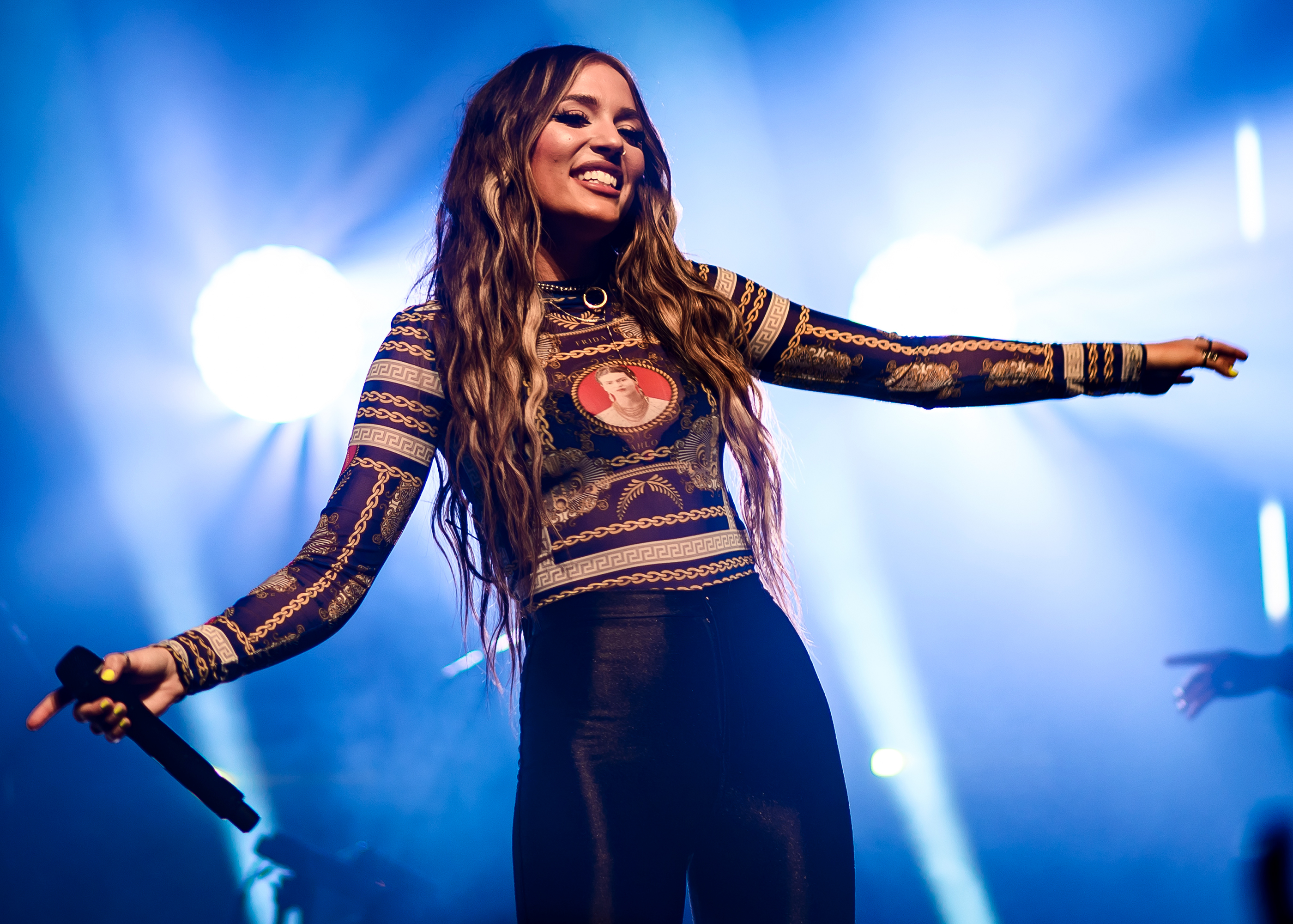 Lennon Stella performing live at The Fonda theatre in Los Angeles, California, on Wednesday, April 3, 2019. Shot for Pass The Aux.